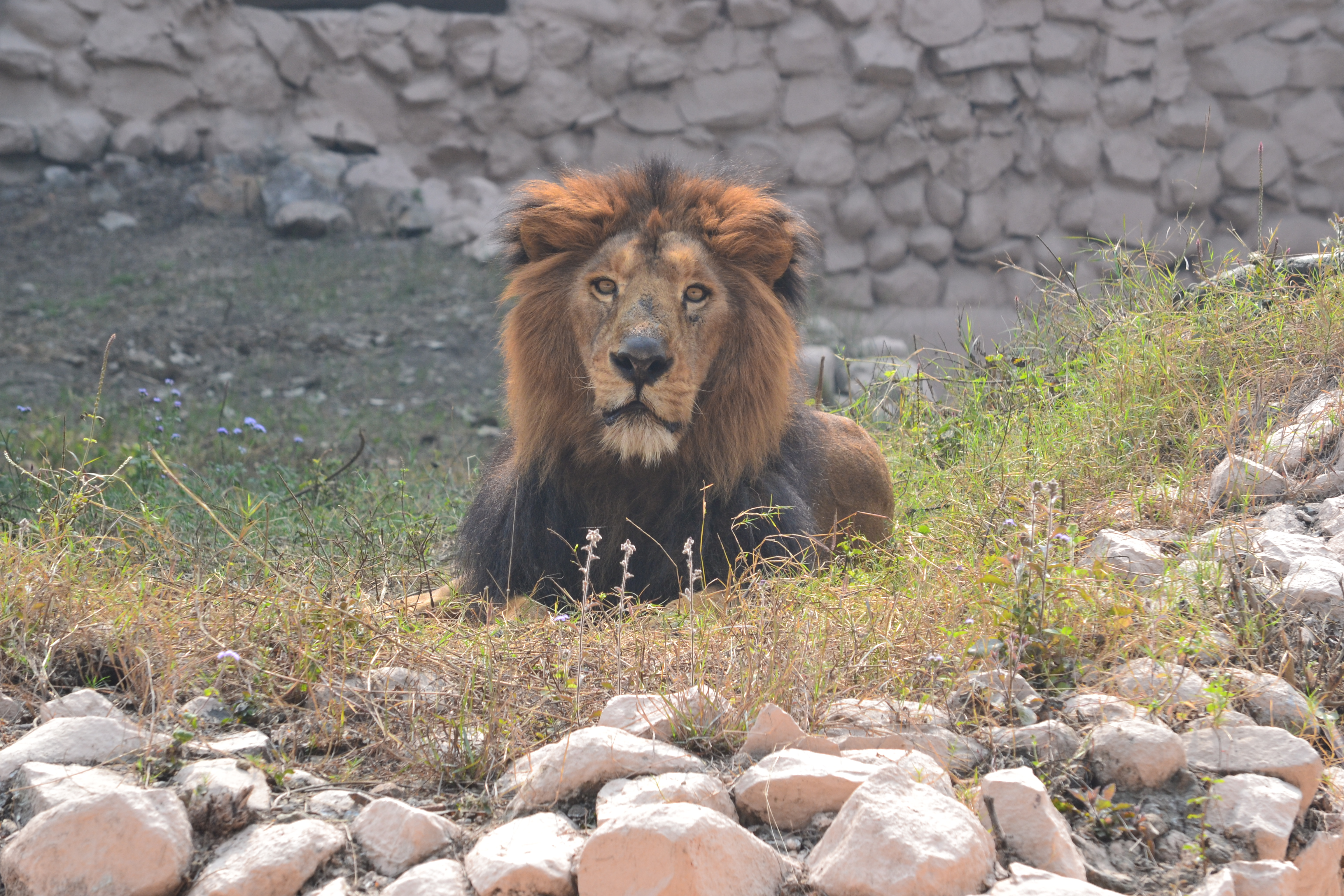 Lucknow Zoo Attraction This image was taken in Lucknow Zoo, Uttar Pradesh India.